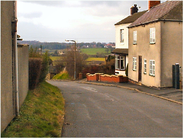 Looking down The Tentas, from Top Road, Griffydam The corner of Griffydam Methodist church and graveyard can just be seen